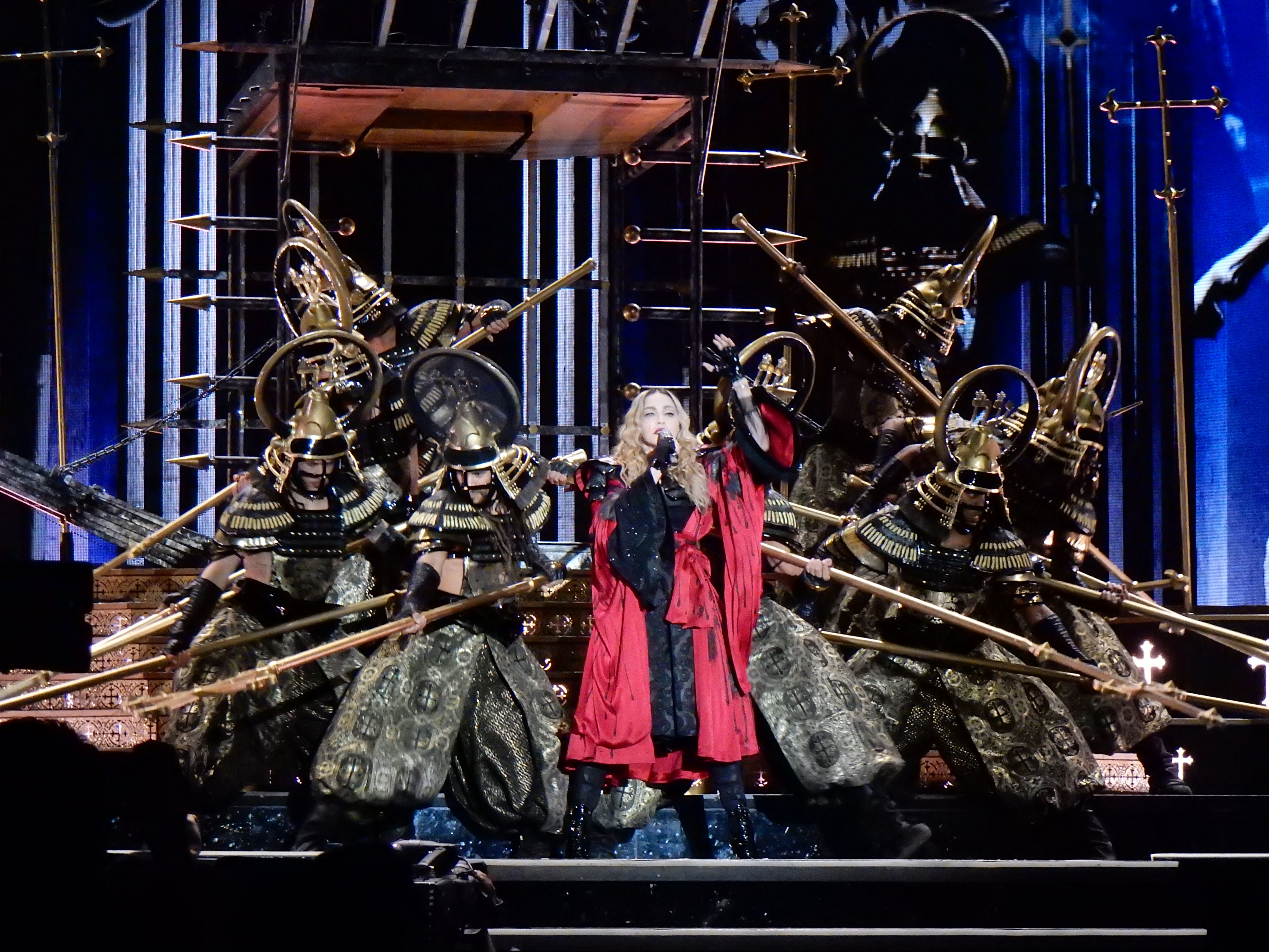 Madonna - Rebel Heart Tour 2015 - Paris 1